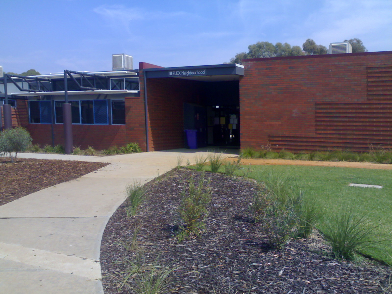 A picture of the main entrance to the Year 8 Learning Neighbourhood, also know as FLEX, at Echuca College, Victoria, Australia in 2009.